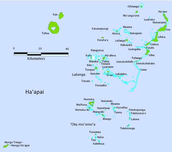 Haʻapai island group and division, Tonga, Pacific Ocean